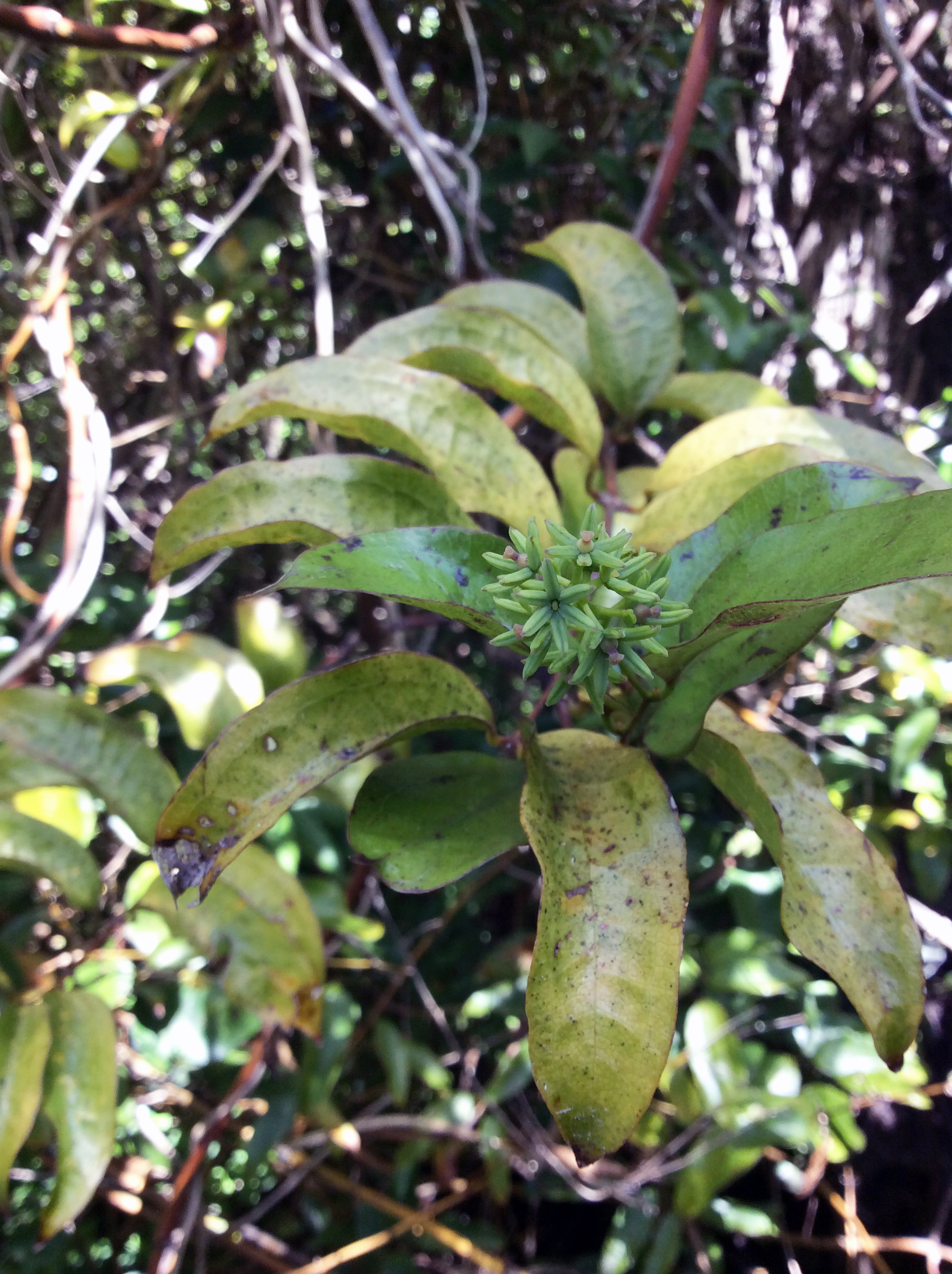 Supplejack (Ripogonum scandens) on Ulva Island, South Island, New Zealand. This woody, evergreen liane is endemic to NZ.